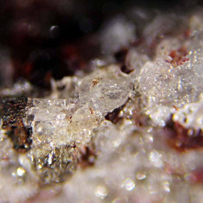 White glassy granular crystals of the extremely rare mineral arctite from the type locality and only know locality worldwide (Vuonnemiok River Valley, Kola, Russian Federation), and associated to pink villiaumite. Ex-Excalibur-Cureton Company specimen.